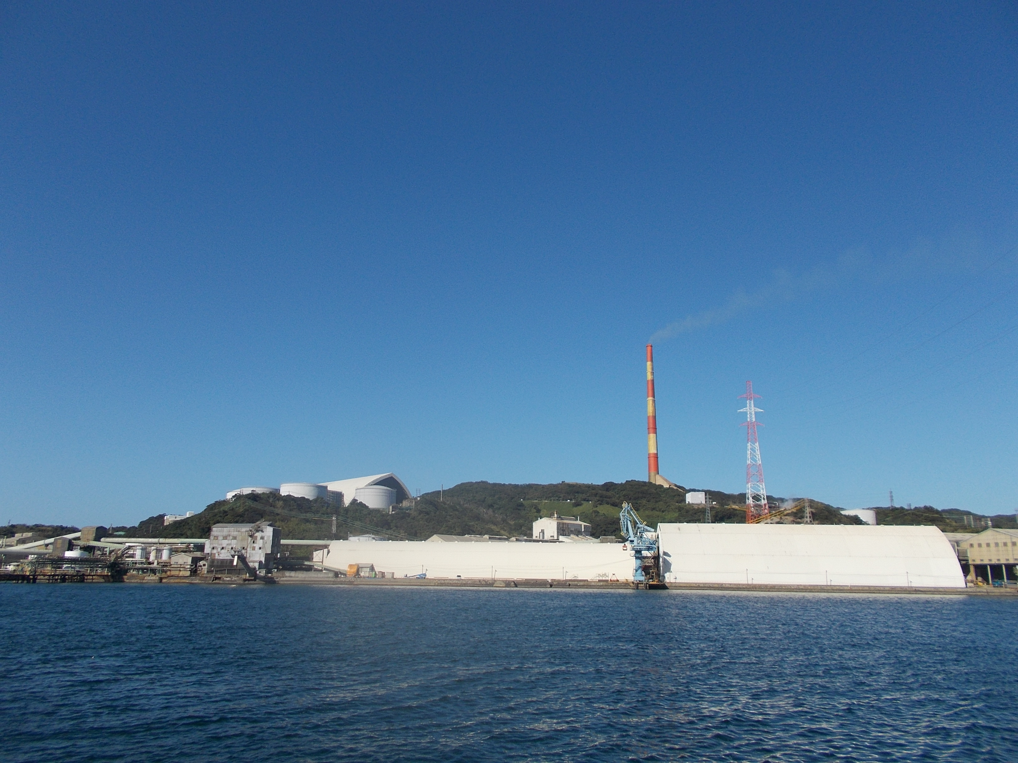 Pan Pacific Copper, Oita, Oita, Japan